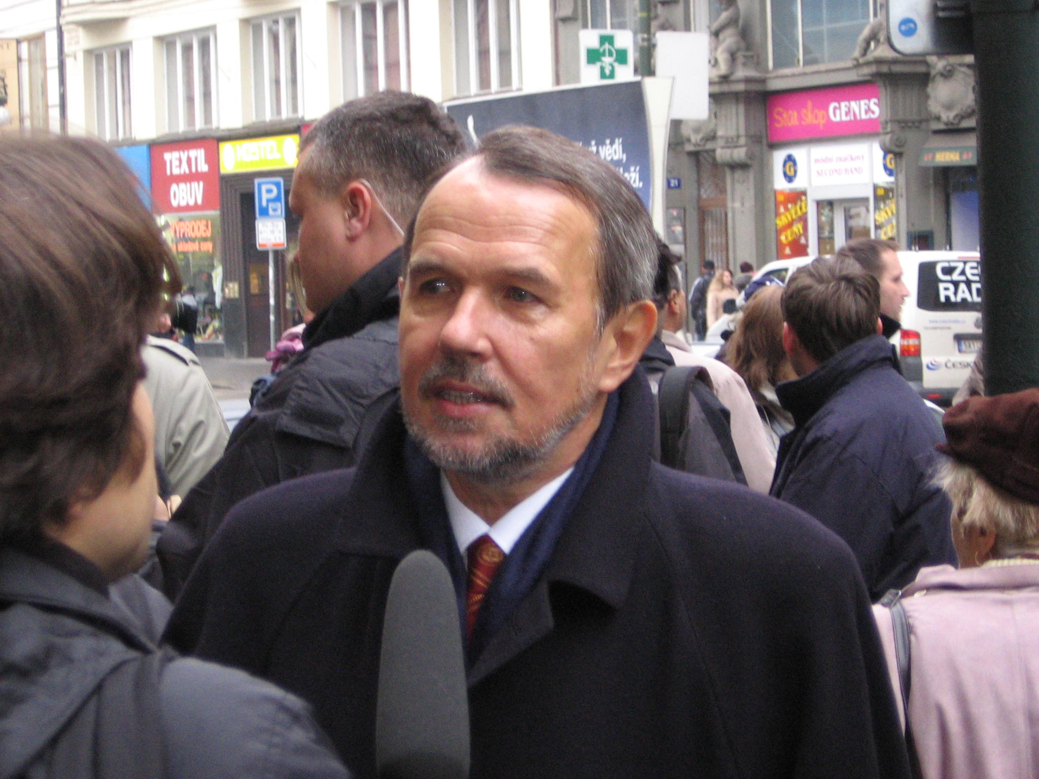 Petr Hájek, Czech writer and journalist